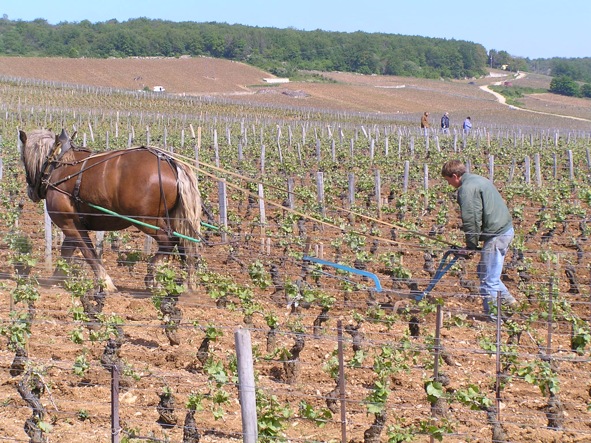 Photo by Gavin Sherry, May 2005.